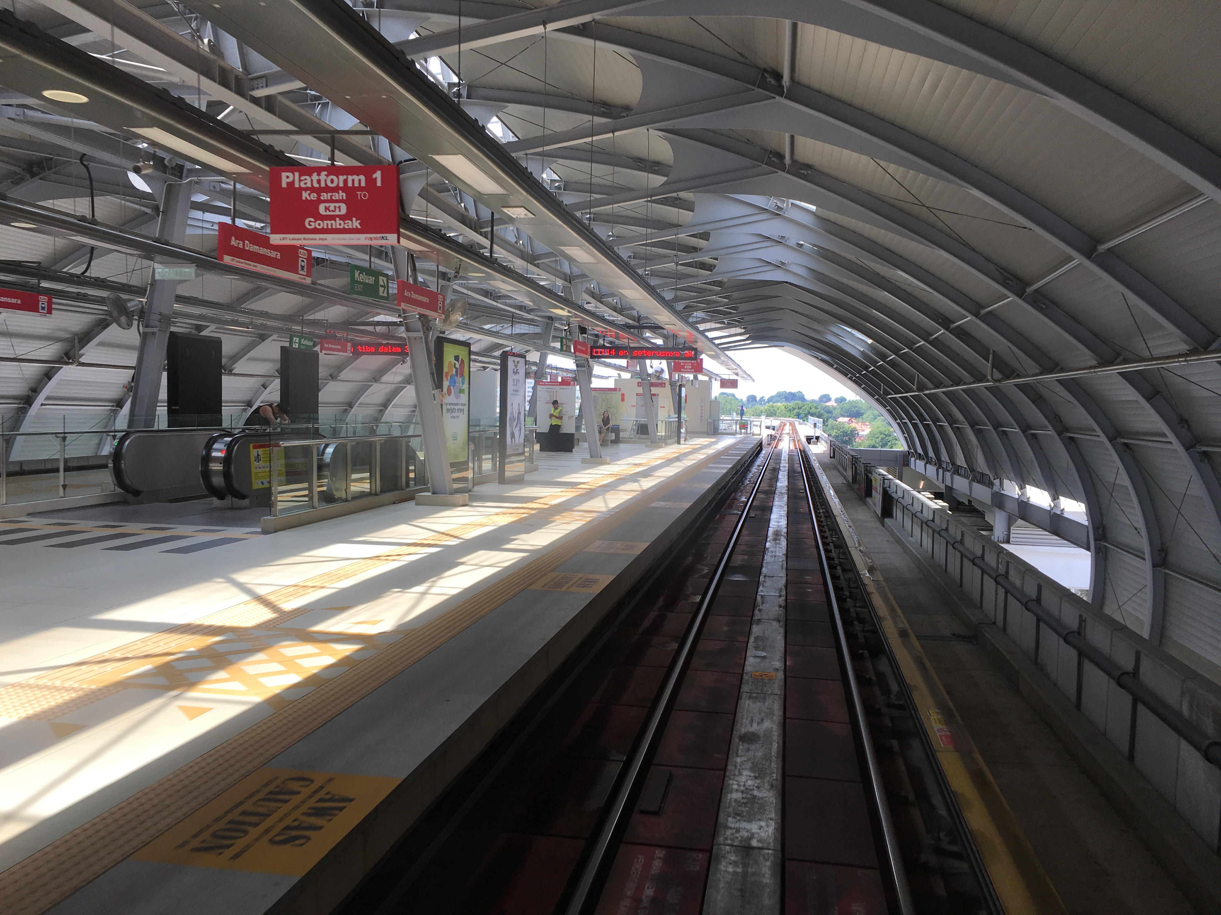 Platform level of station